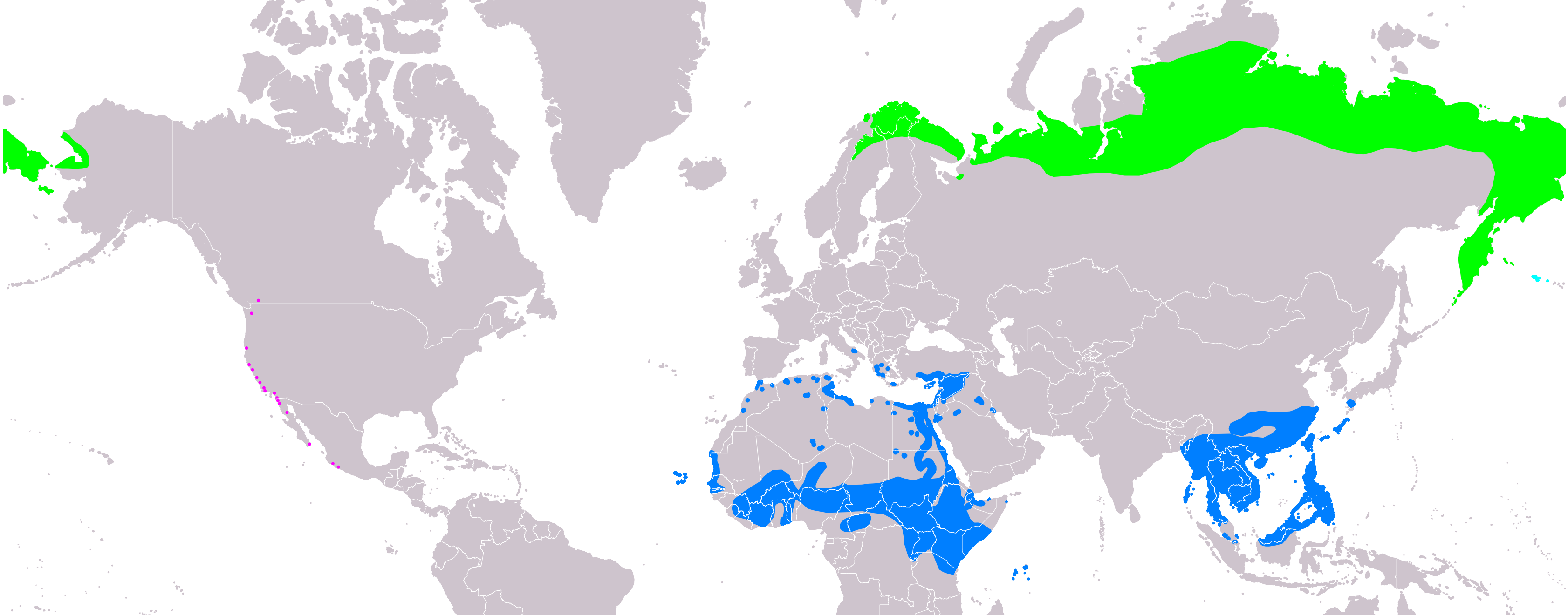 The distribution map of red-throated pipit (Anthus cervinus) according to IUCN version 2019.1; key: Legend: Extant, breeding (#00FF00), Extant, passage (#00FFFF), Extant, non-breeding (#007FFF), Extant & Vagrant (seasonality uncertain) (#FF00FF)